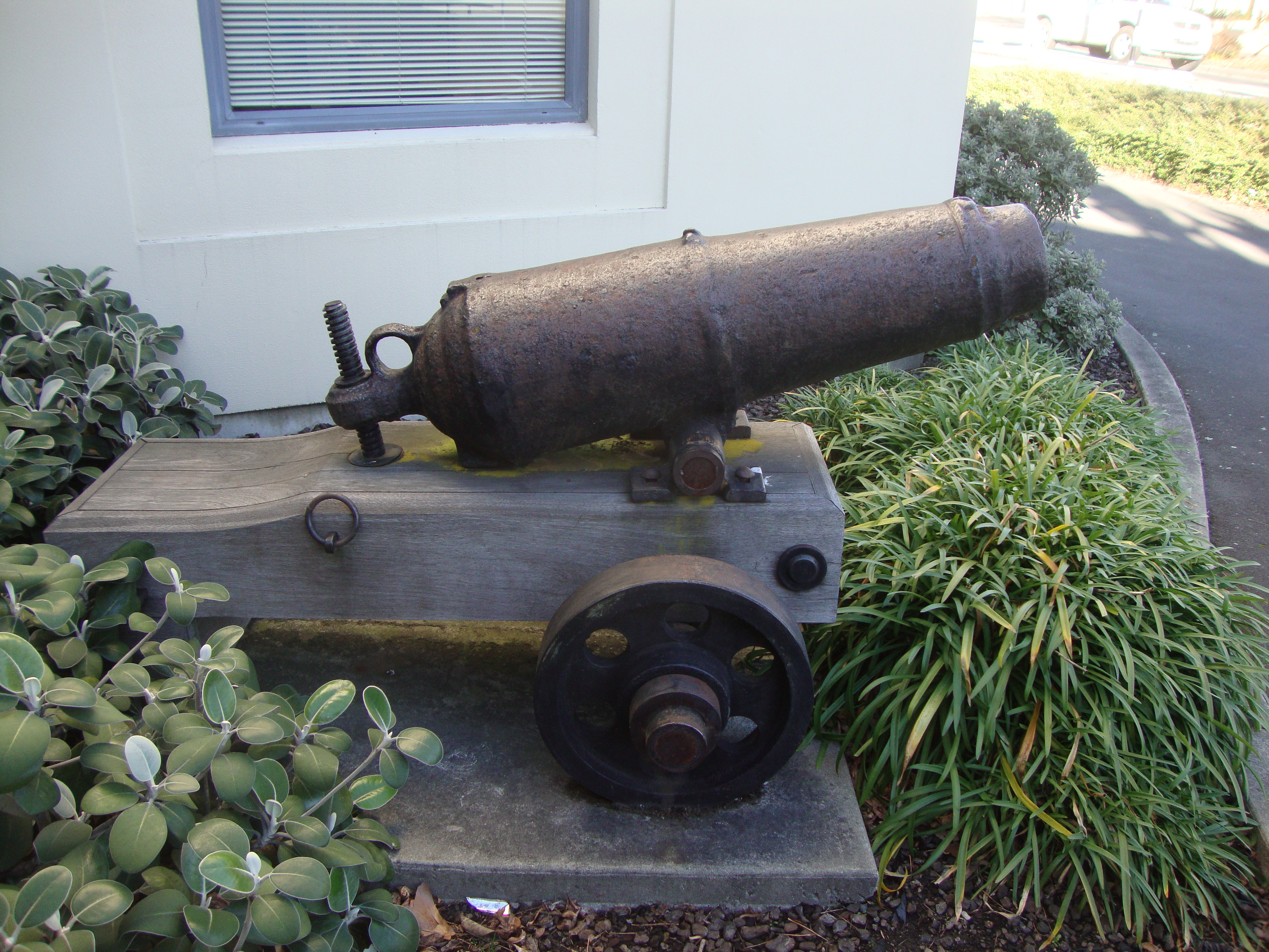 Blenkinsopp's Cannon in front of the Marlborough District Council offices.